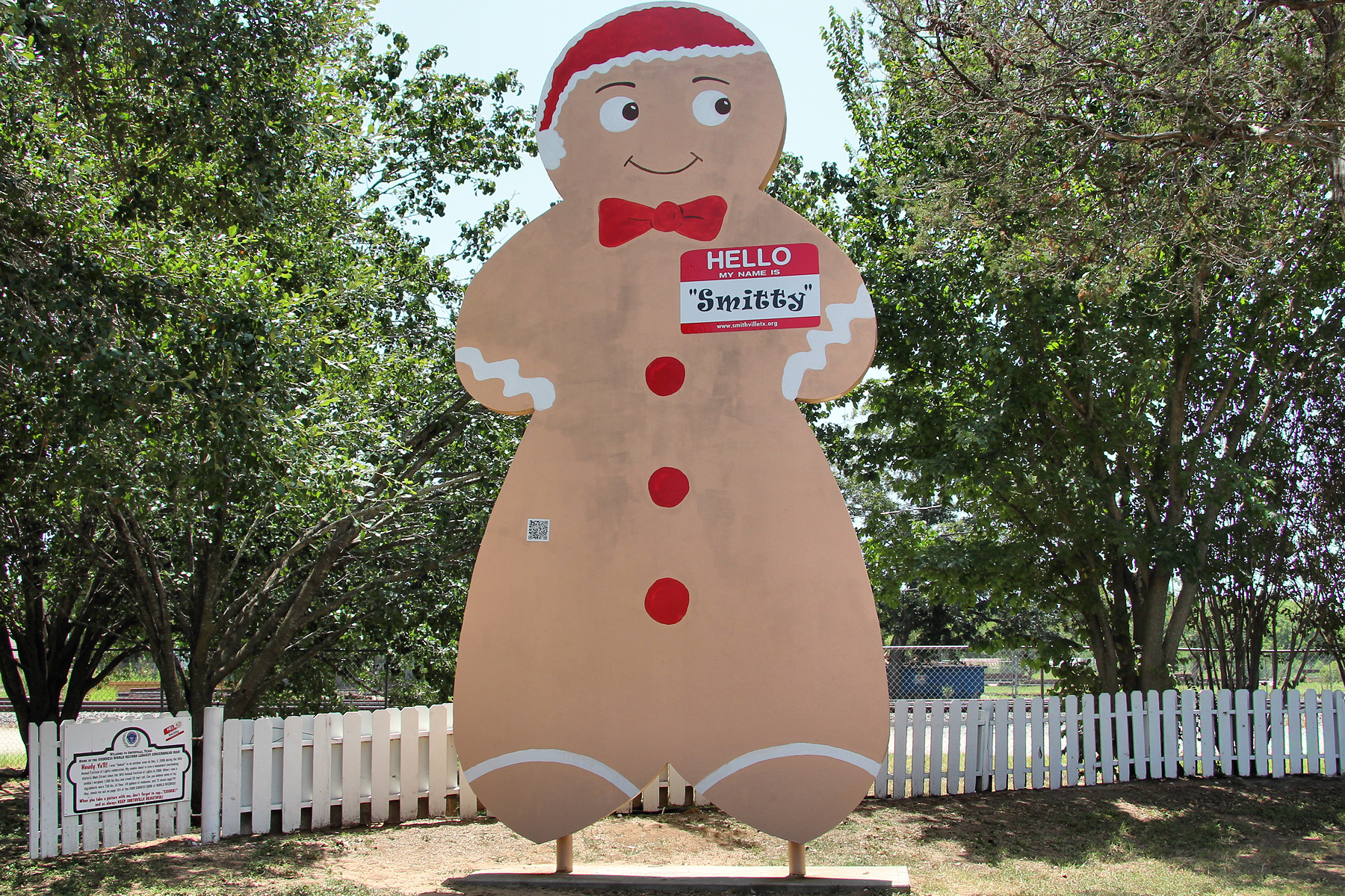 The pan used to bake the Guinness World Record gingerbread man now stands in a park in downtown Smithville, Texas, United States. The gingerbread man was baked on December 2, 2006, recognized by Guinness in 2008 and included in the 2009 edition.